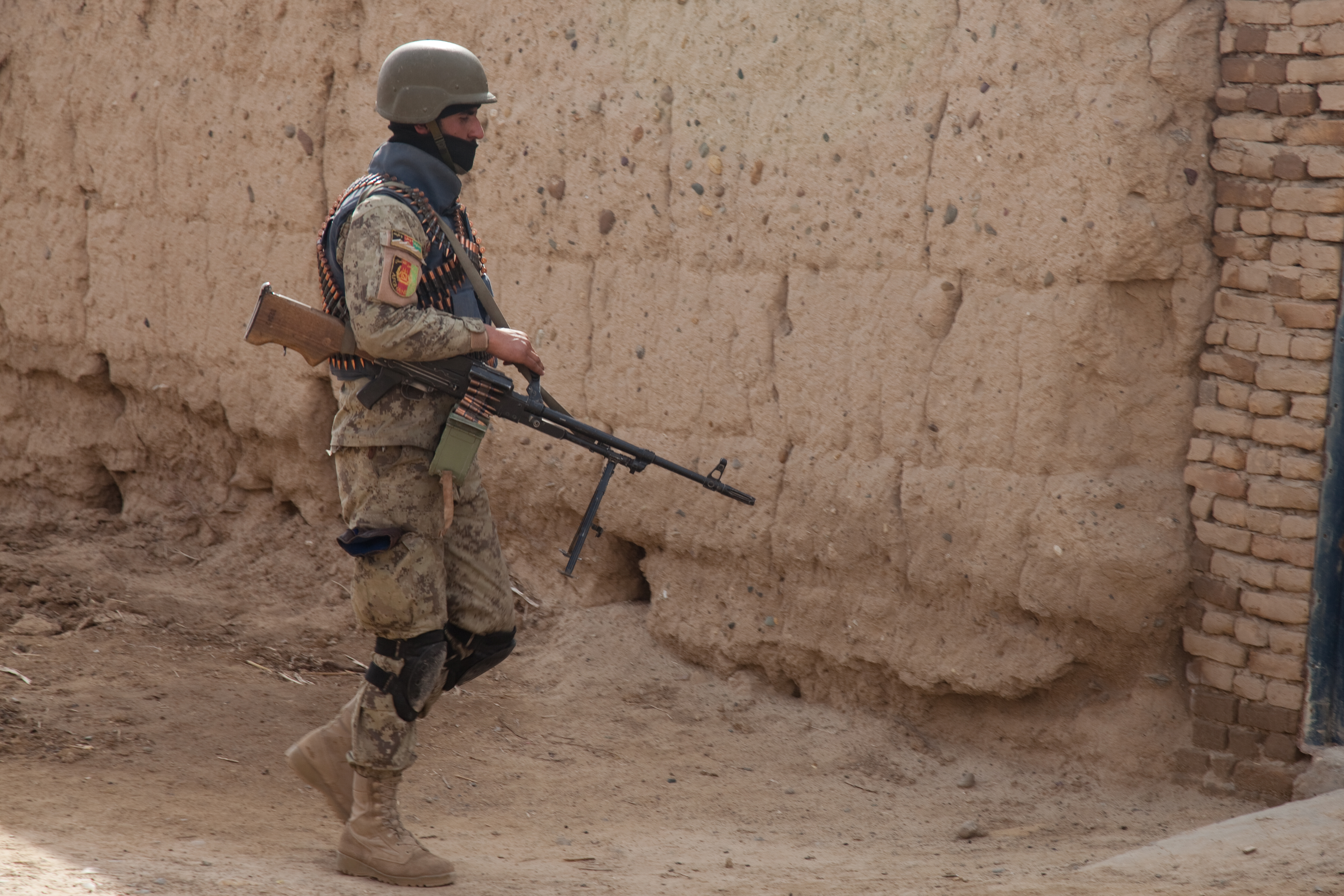 A member of 3rd Kandak, 3rd Brigade, Afghan National Civil Order Police, participates in a dismounted patrol in Sher'Ali Kariz, Maiwand district, Kandahar province, Afghanistan, Feb. 24, 2012. The mission with U.S. Soldiers of 4th Battalion, 25th Field Artillery Regiment, 3rd Brigade Combat Team, 10th Mountain Division and soldiers of 3rd Brigade, 205th Corps, Afghan National Army, found insurgent weapons caches and improvised explosive devices.